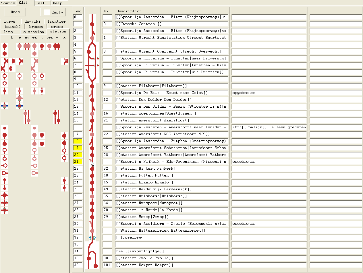 Screenshot from program